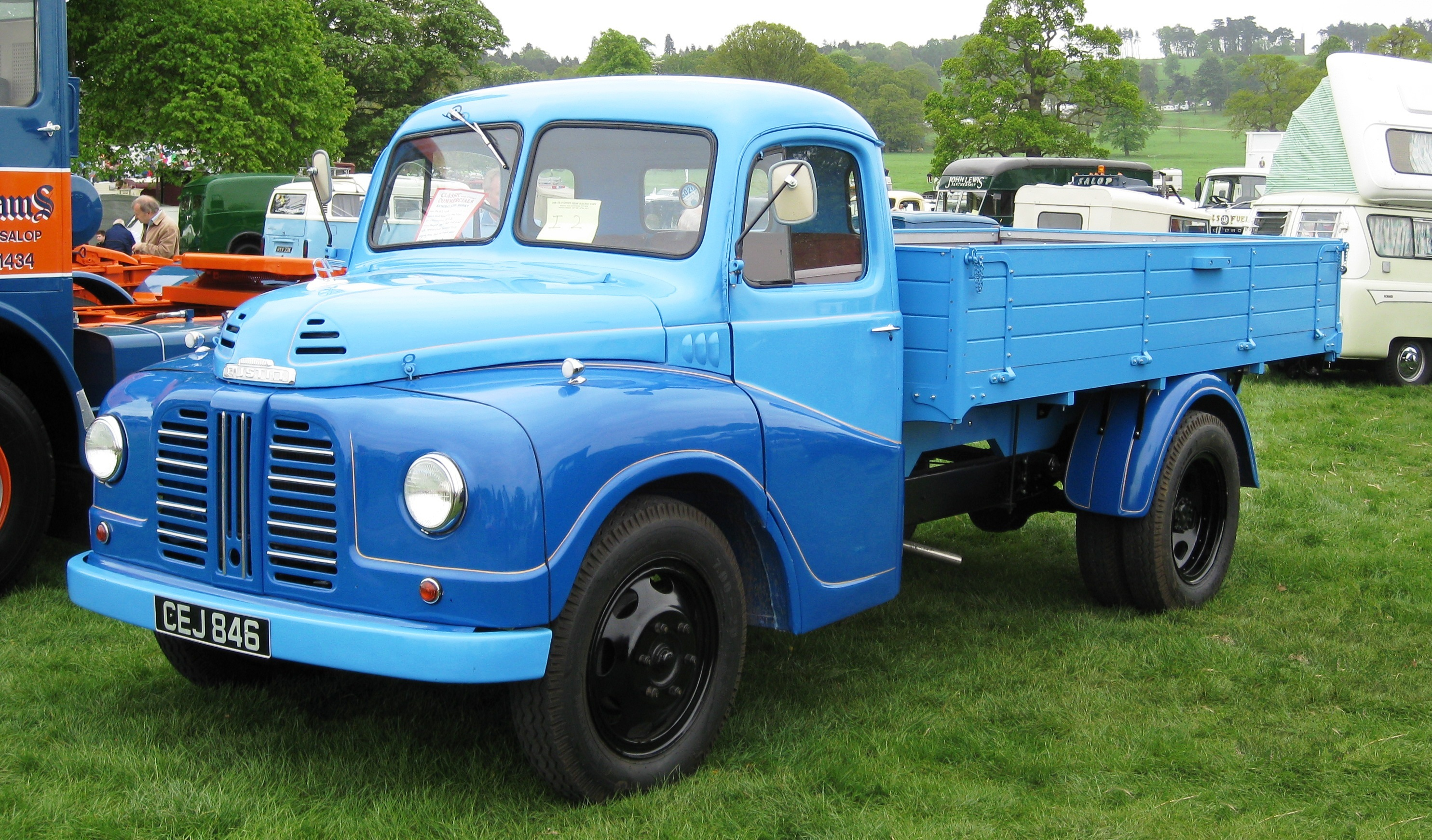 Austin "Loadstar" light truck at Weston Park Transport Show